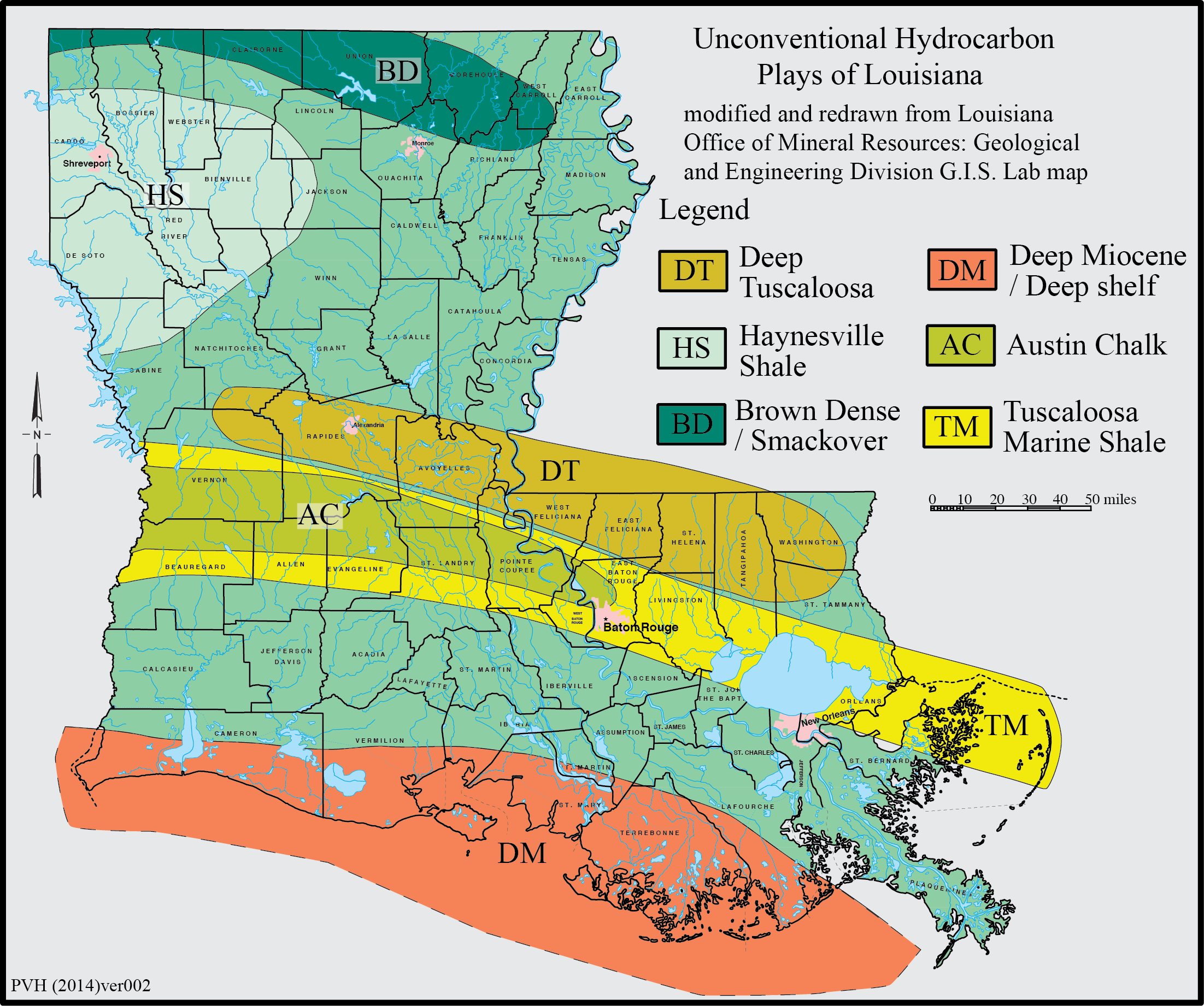 Unconventional Hydrocarbon Plays of Louisiana - Haynesville Shale, Tuscaloosa Marine Shale, Brown Dense (Smackover)